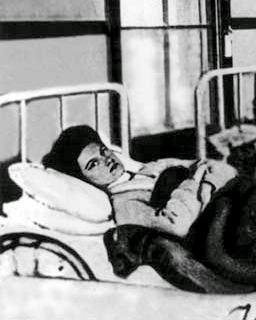 Mary Mallon in a hospital bed. She was forcibly quarantined as a carrier of typhoid fever in 1907 for three years and then again from 1915 until her death in 1938. Image source: [1], where it is credited to the June 20, 1909 issue of The New York American. Hence published pre-1923.